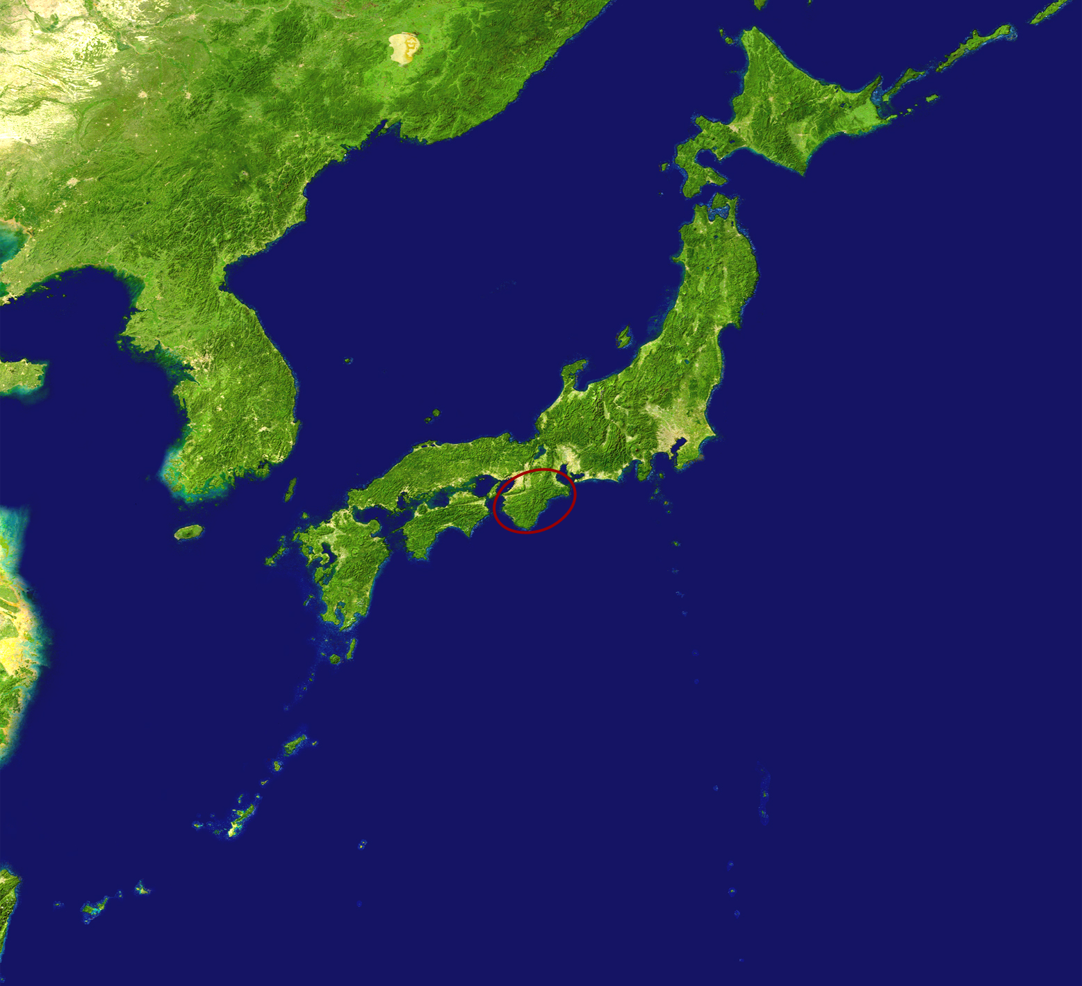 Satellite view of Japan with the Kii Peninsula marked.